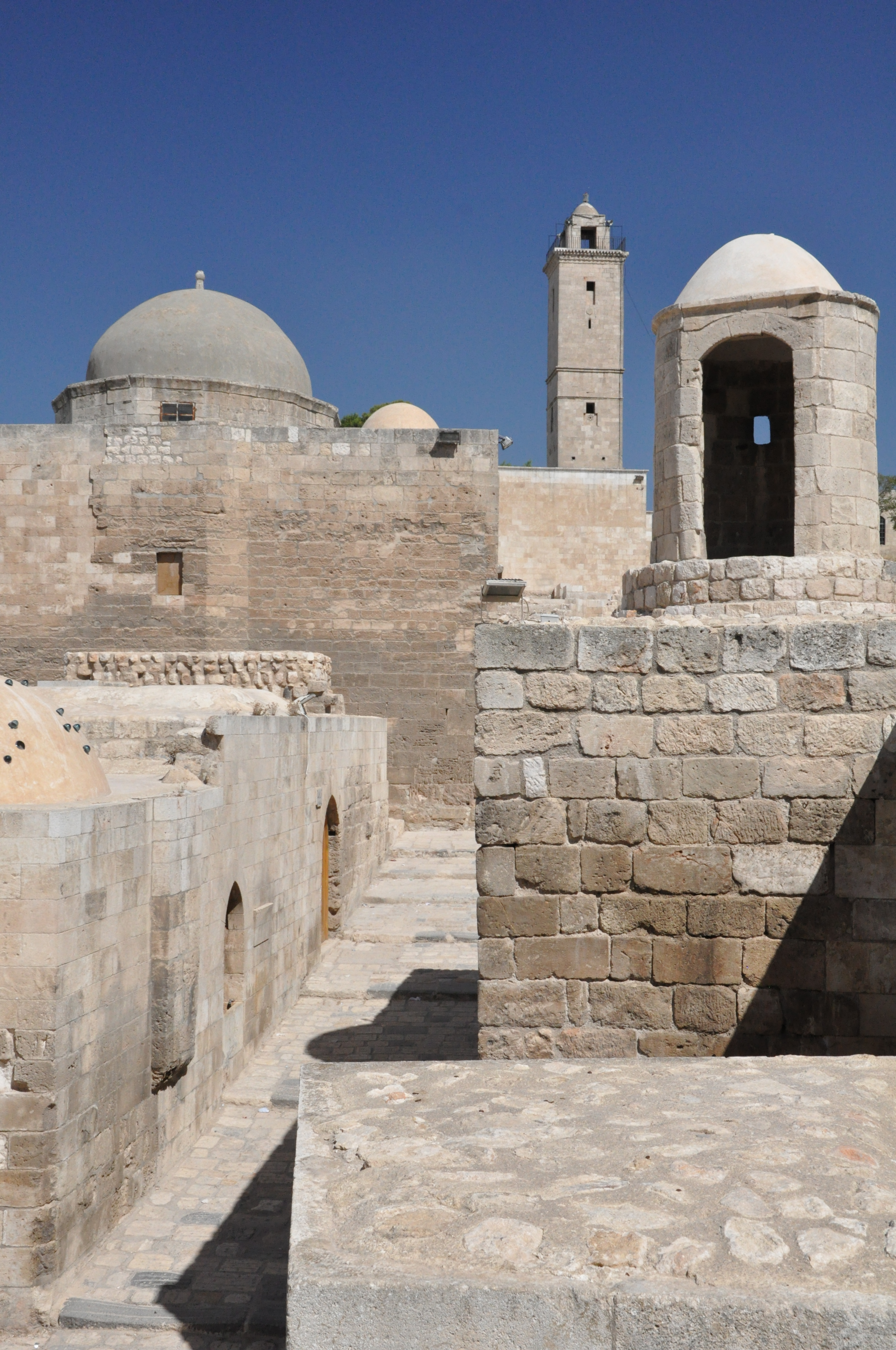 Inside the citadel of Aleppo